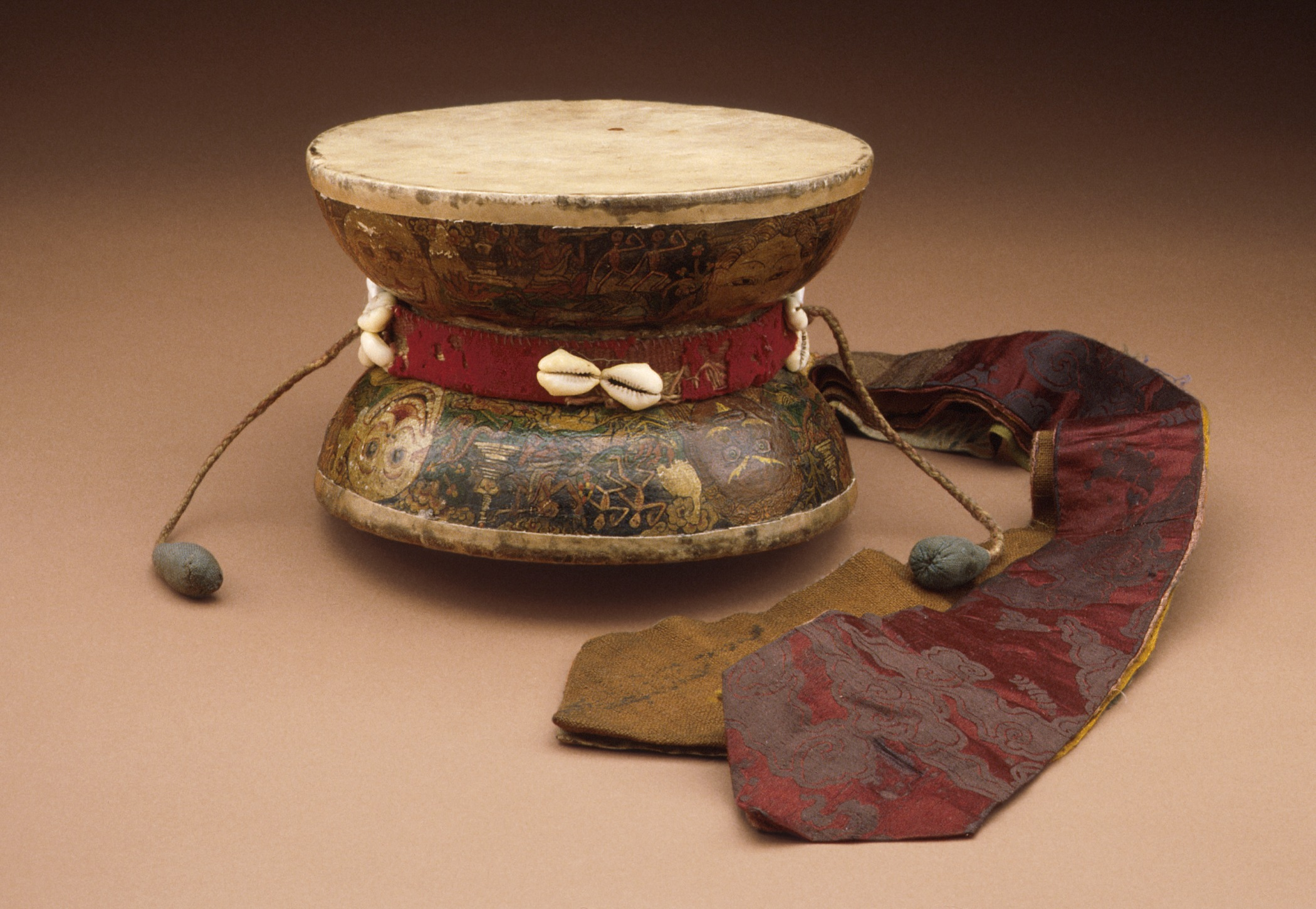 Tibet, circa 18th century Tools and Equipment; musical instruments Opaque watercolor on wood with skin and cowry shells; cotton and silk fittings Purchased with funds provided by Harry and Yvonne Lenart (M.86.127) South and Southeast Asian Art